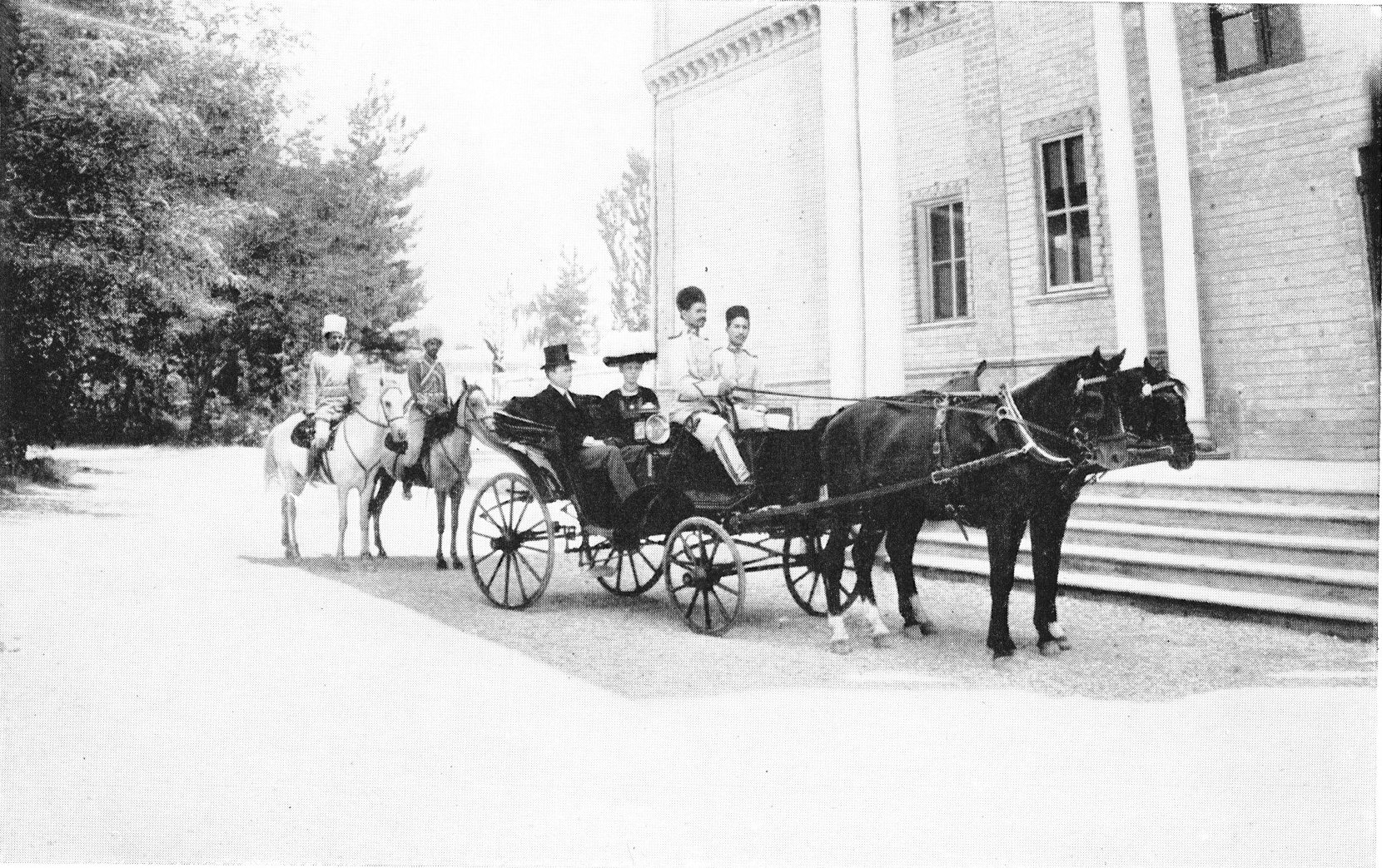 Mr. and Mrs. Shuster in Tehran, April 1909